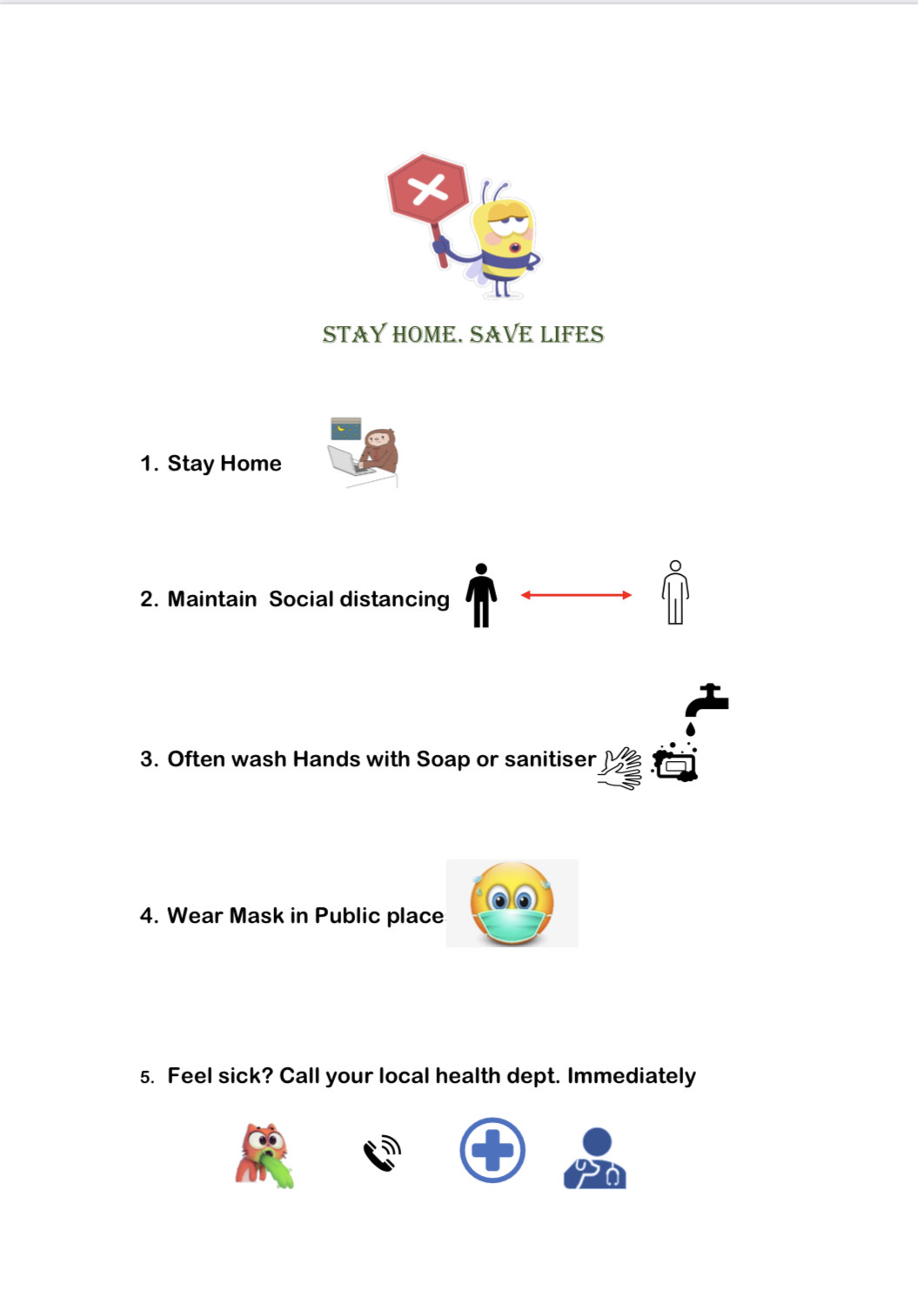 5 ways to fight with corona, as per WHO guidelines